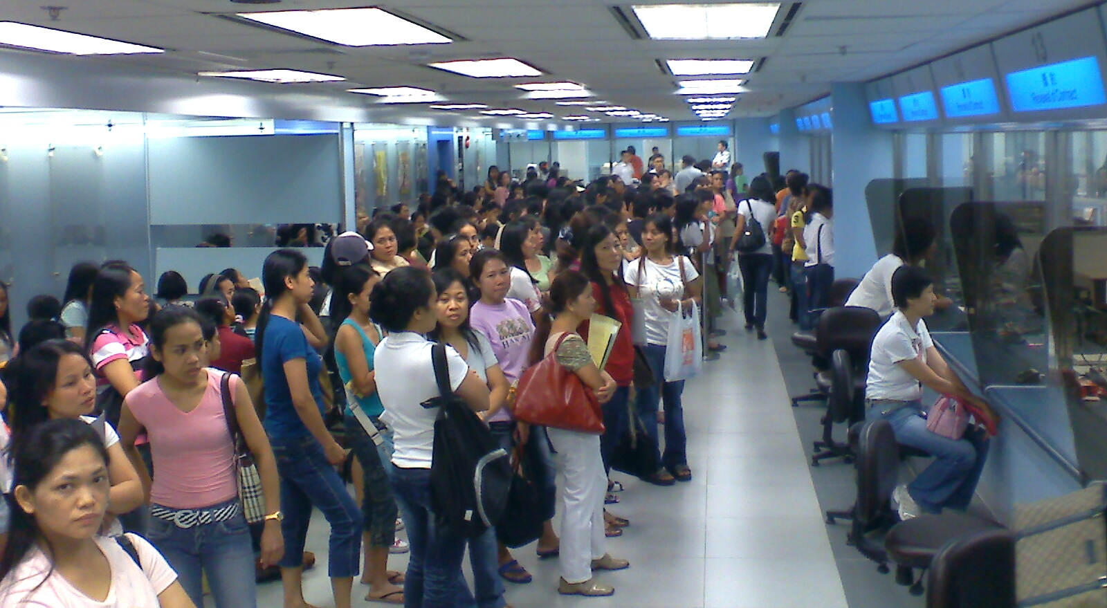 Queues at the Immigration Department to deal with avalanche of contract renewals following suspension of the Employees Retraining Levy